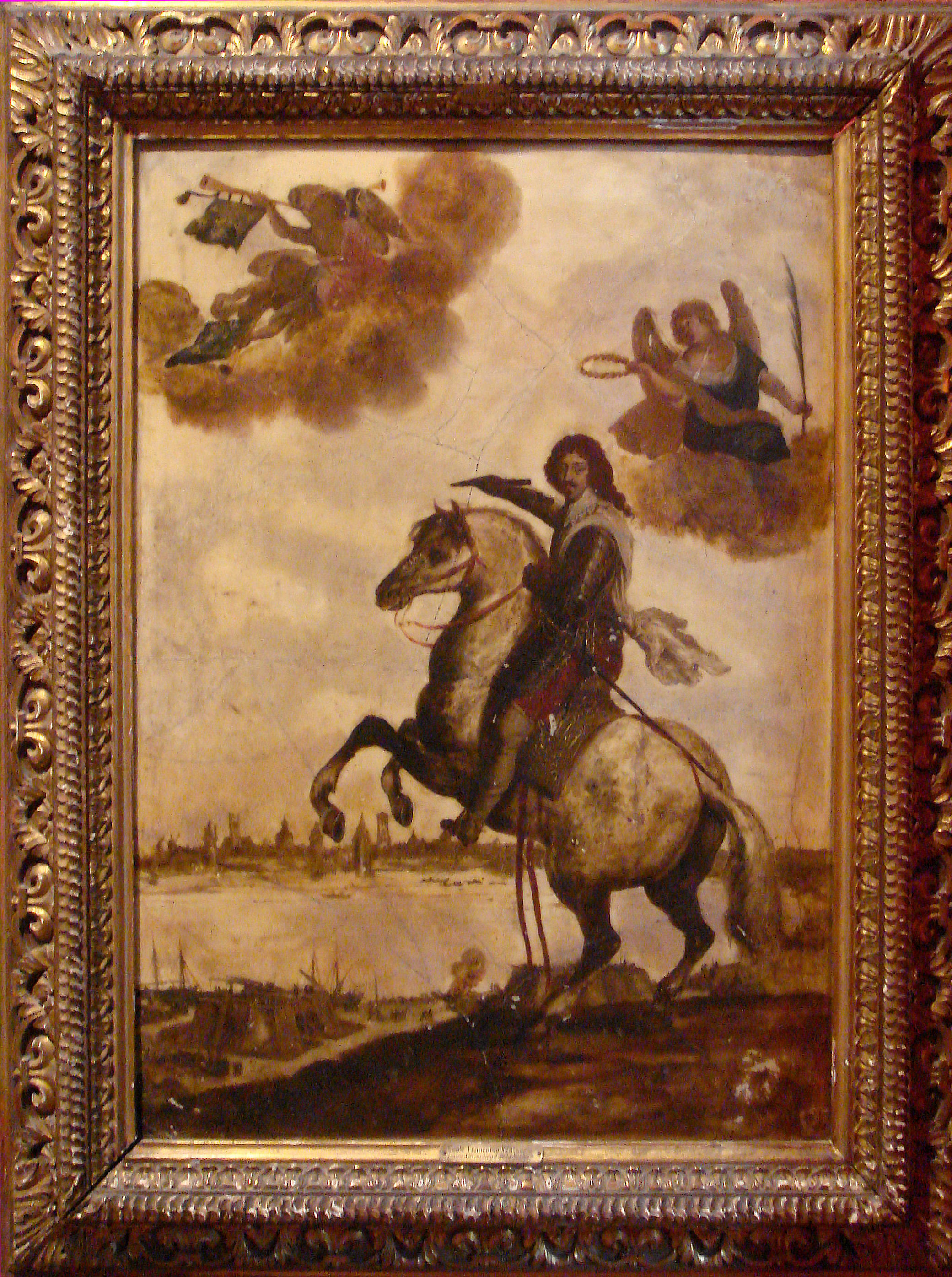 Louis_XIII_at_the_Siege_of_La_Rochelle_17th_century